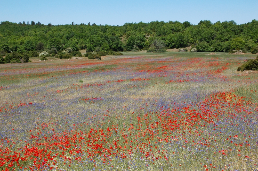 Corn poppy, 2 km North of Le Caylar, 43°51'N 03°19'E, 800mNN, Languedoc-Roussillon, "Causse du Larzac", karst plateau southern Massif central, France